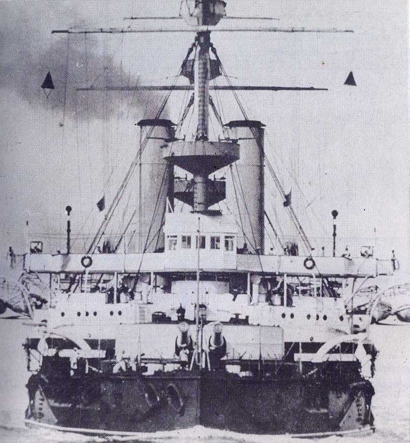 Photo of British battleship HMS Hood (1891) in the Mediterranean in 1901